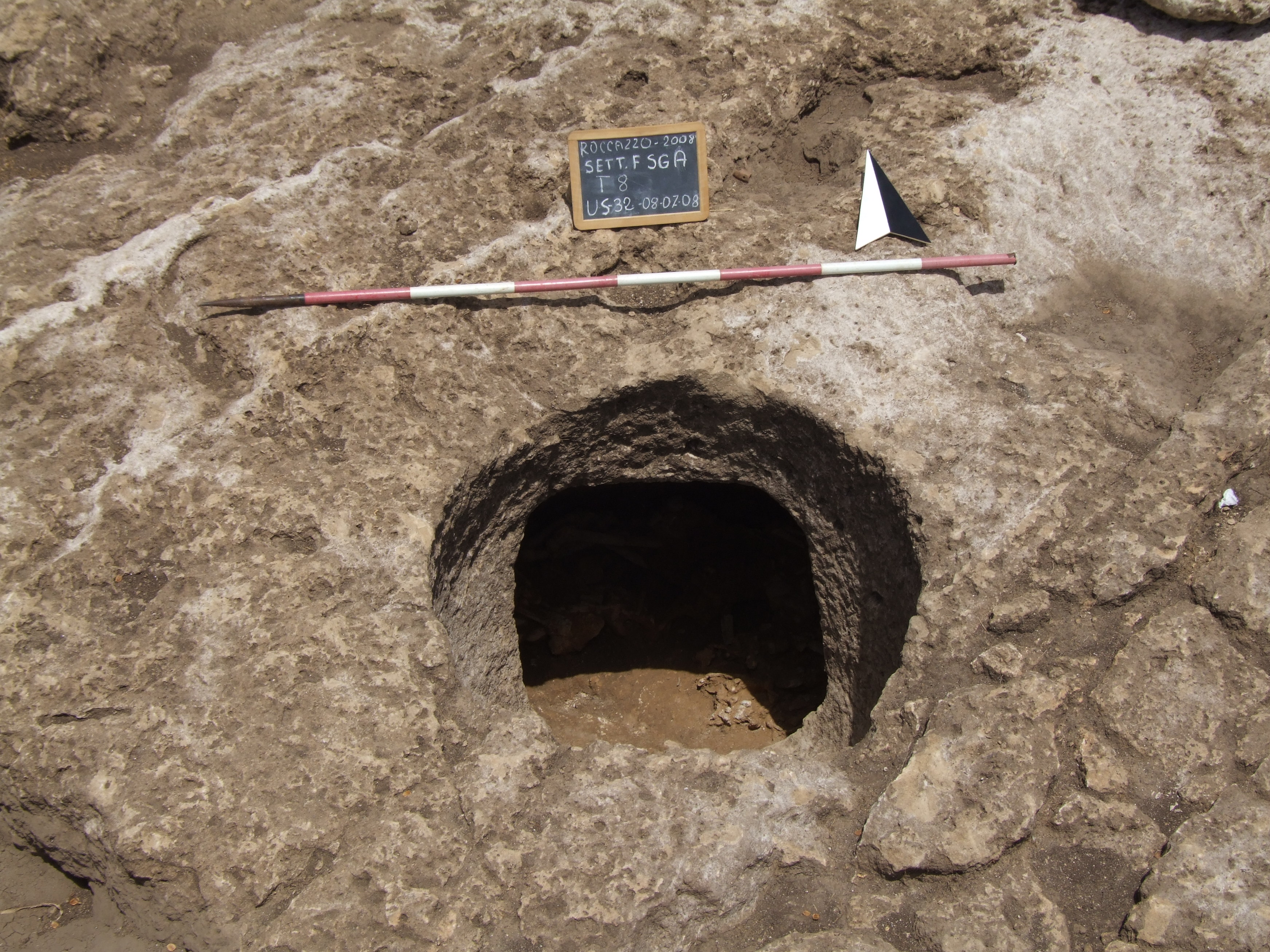 Archaeological site of Roccazzo Sicily Island Italy. Copper Age Grave